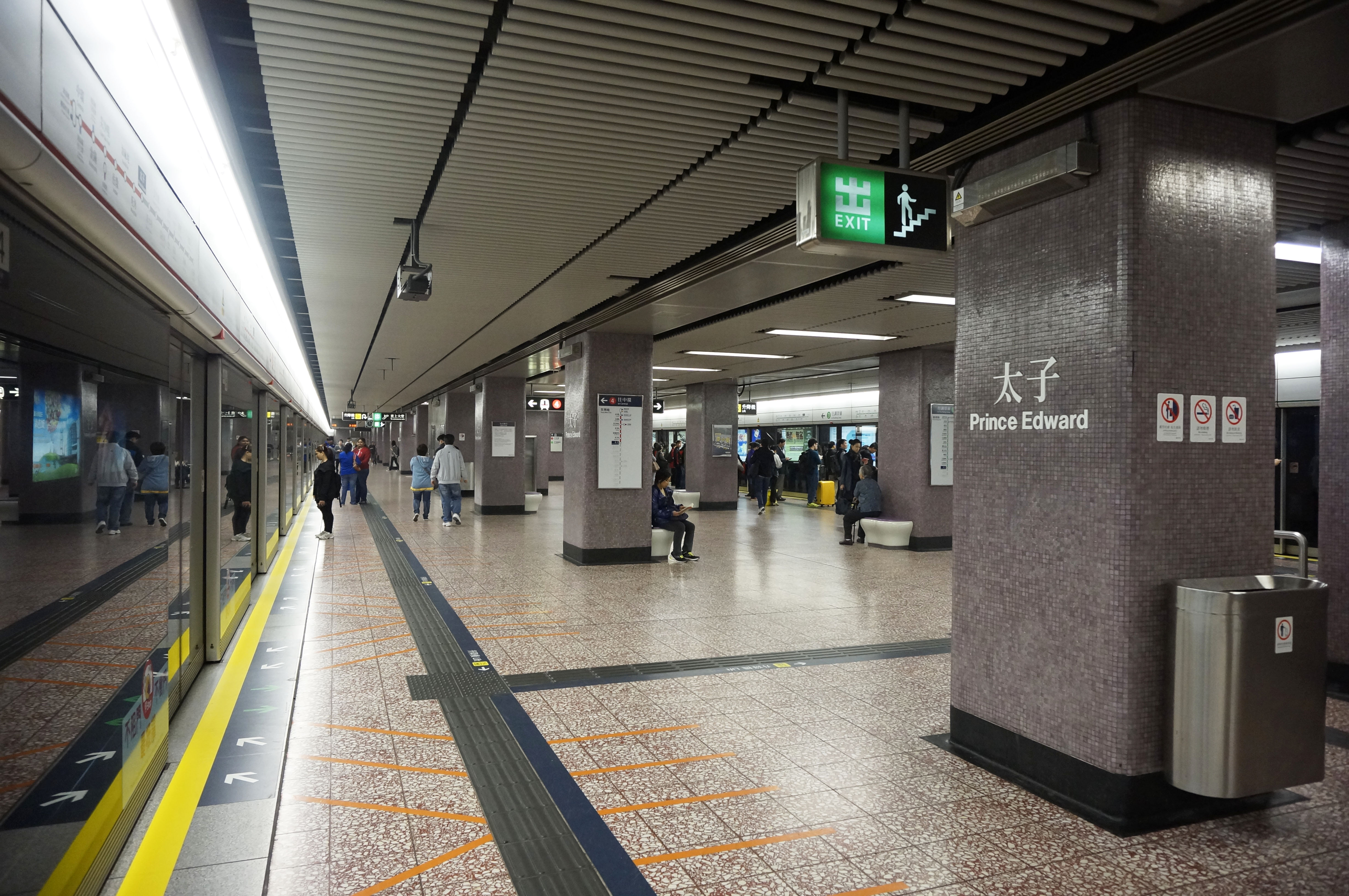 MTR Prince Edward station platforms